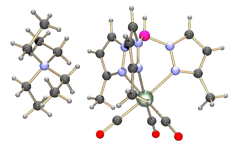 Picture of a Tp tricarbonyl complex of Mo